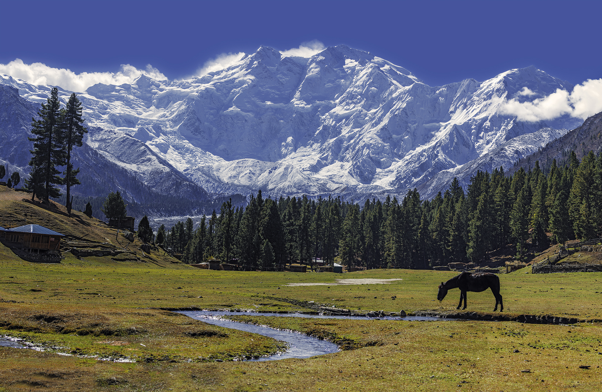 A morning shot of Fairy Meadows and Nanga Parbat.